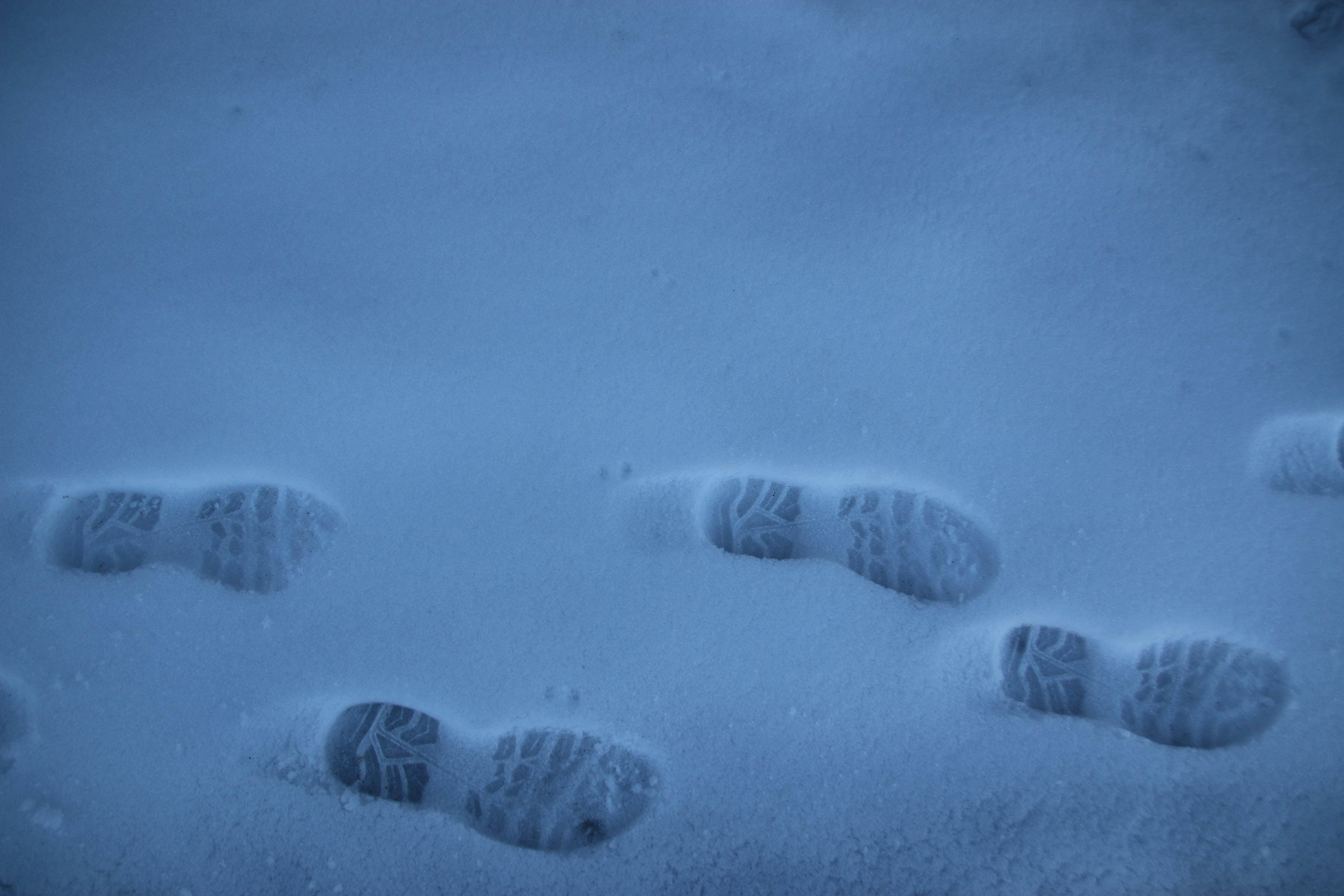 These footprints were phtographed close to the top of mount Kilimanjaro in Tanzania as we walked through fresh snow to the summit. This is an image with the theme "Africa on the Move or Transport" from: Tanzania